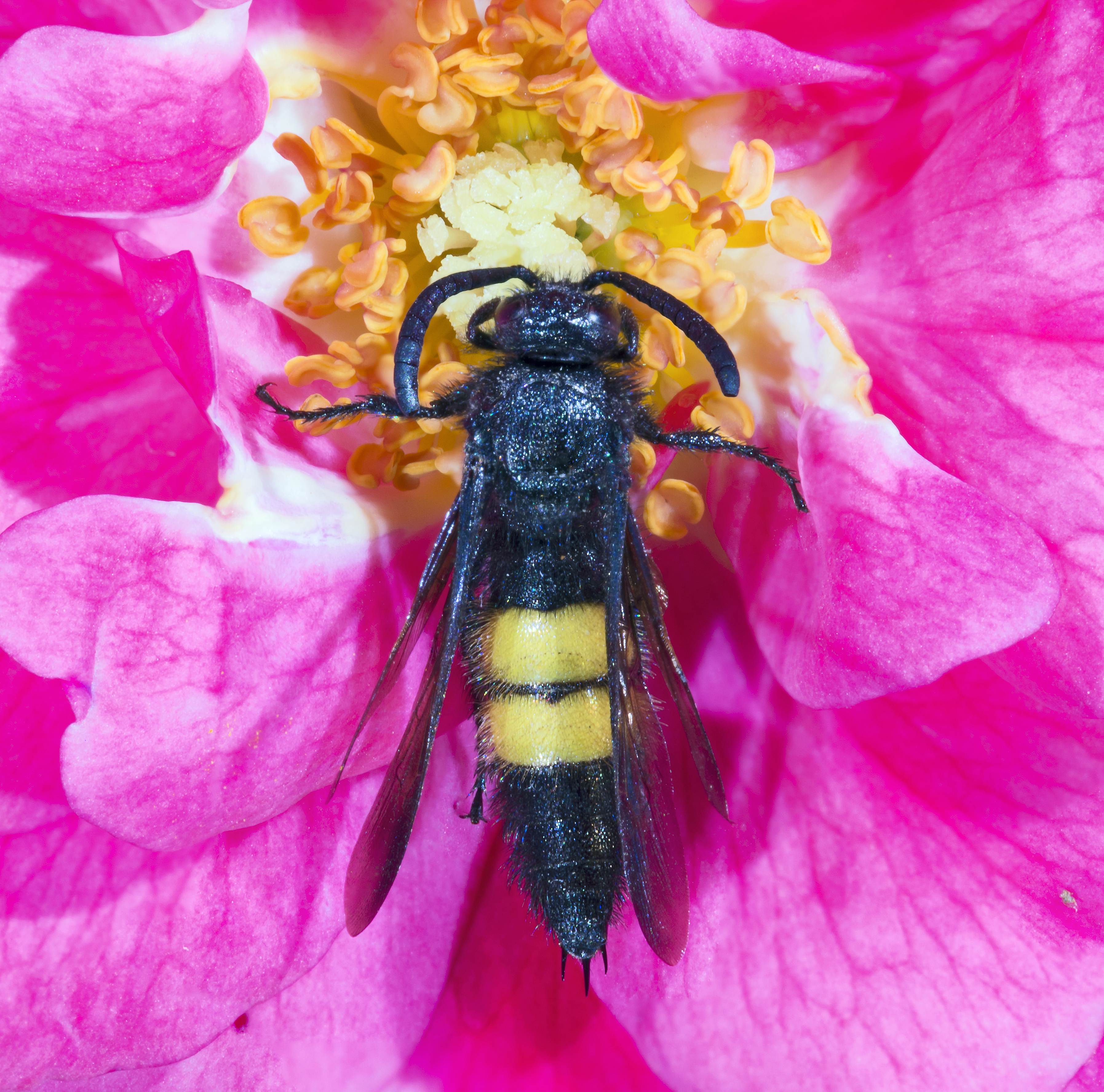 Scolia hirta - Dorsal view, in a rose.